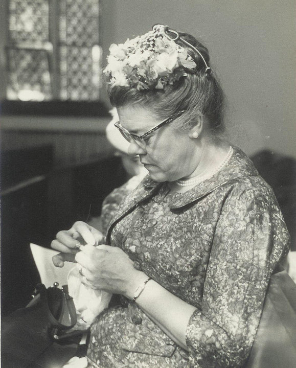 Photo of Winifred Coffin, Actress